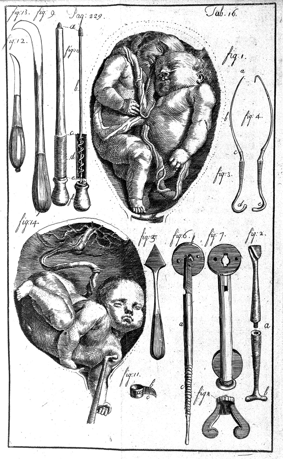 Twins in the womb, and instruments. Wellcome Images Keywords: Midwifery; Obstetrics; John Burton